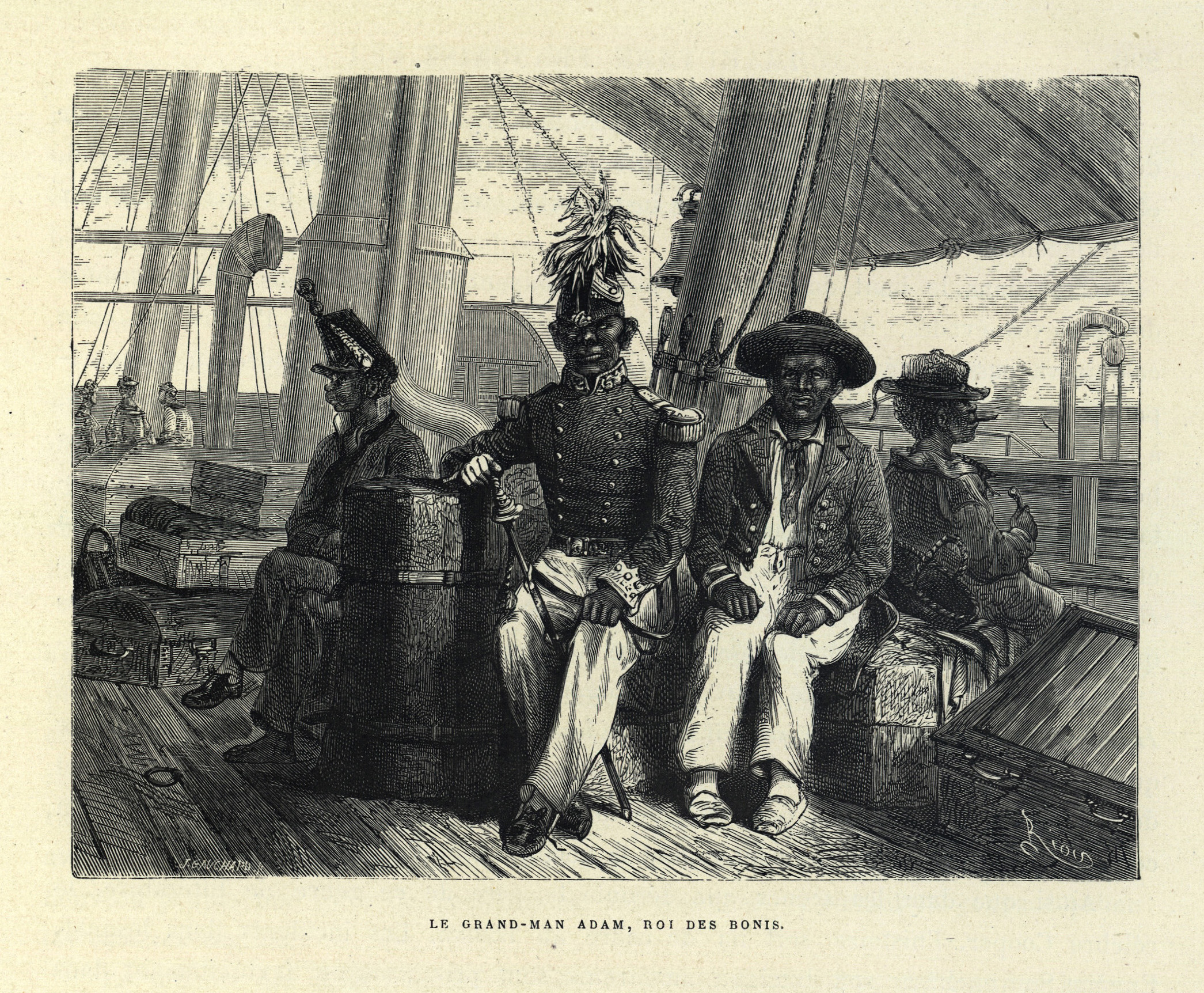 Illustration from page 295 of Frédéric Bouyer's La Guyane française: notes et souvenirs d'un voyage exécuté en 1862–1863 (1867).